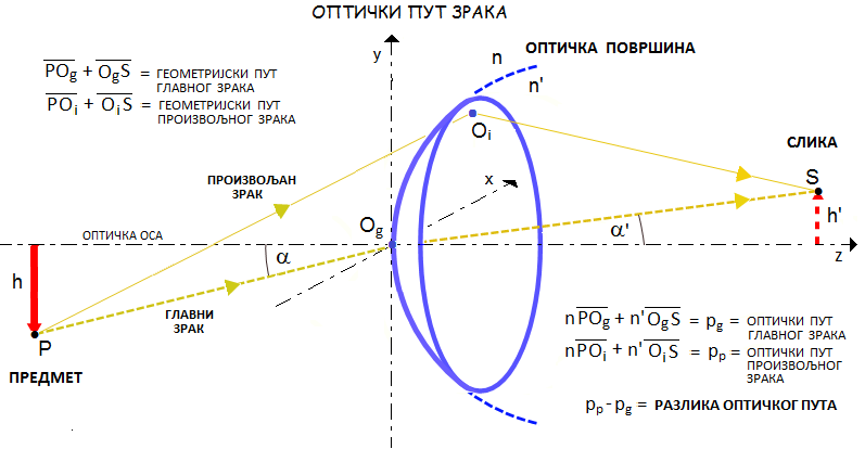 ОПТИЧКИ ПУТ, ЕЛЕМЕНТИ